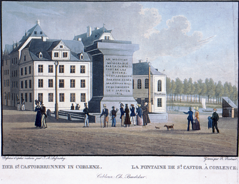 St. Castor fountain at Koblenz